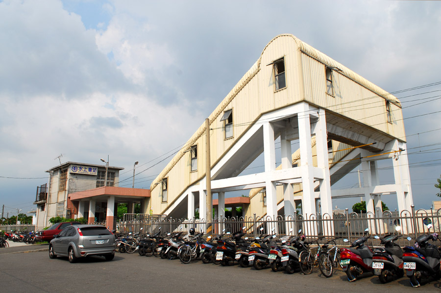 ShueiShang Station is a local train station of Taiwan's Western main rail line. It's the main station of ShueiShang Township, ChiaYi County.